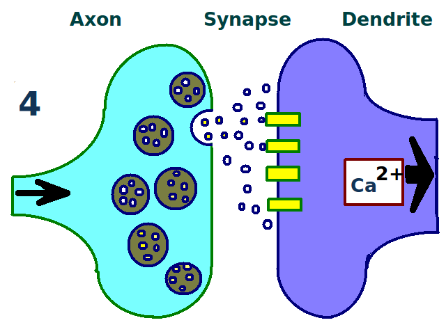 Final stage of long term potentiation. Two nerves (left and right) are linked with a strong signal which works quickly. Scientists believe long term potentiation is the primary way that the brain learns.